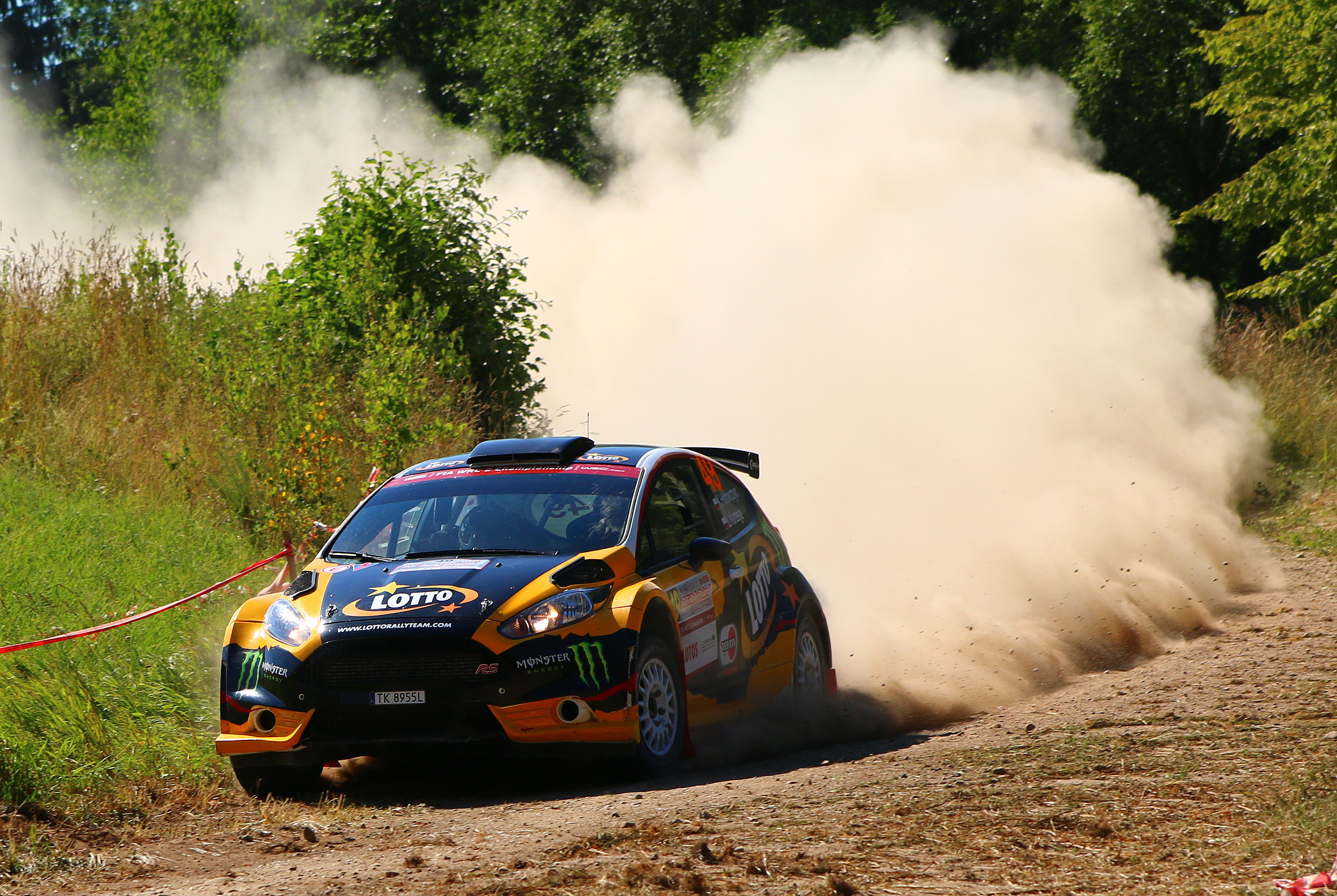 Krzysztof Hołowczyc, OS 10 Mazury, 72nd LOTOS Rally Poland